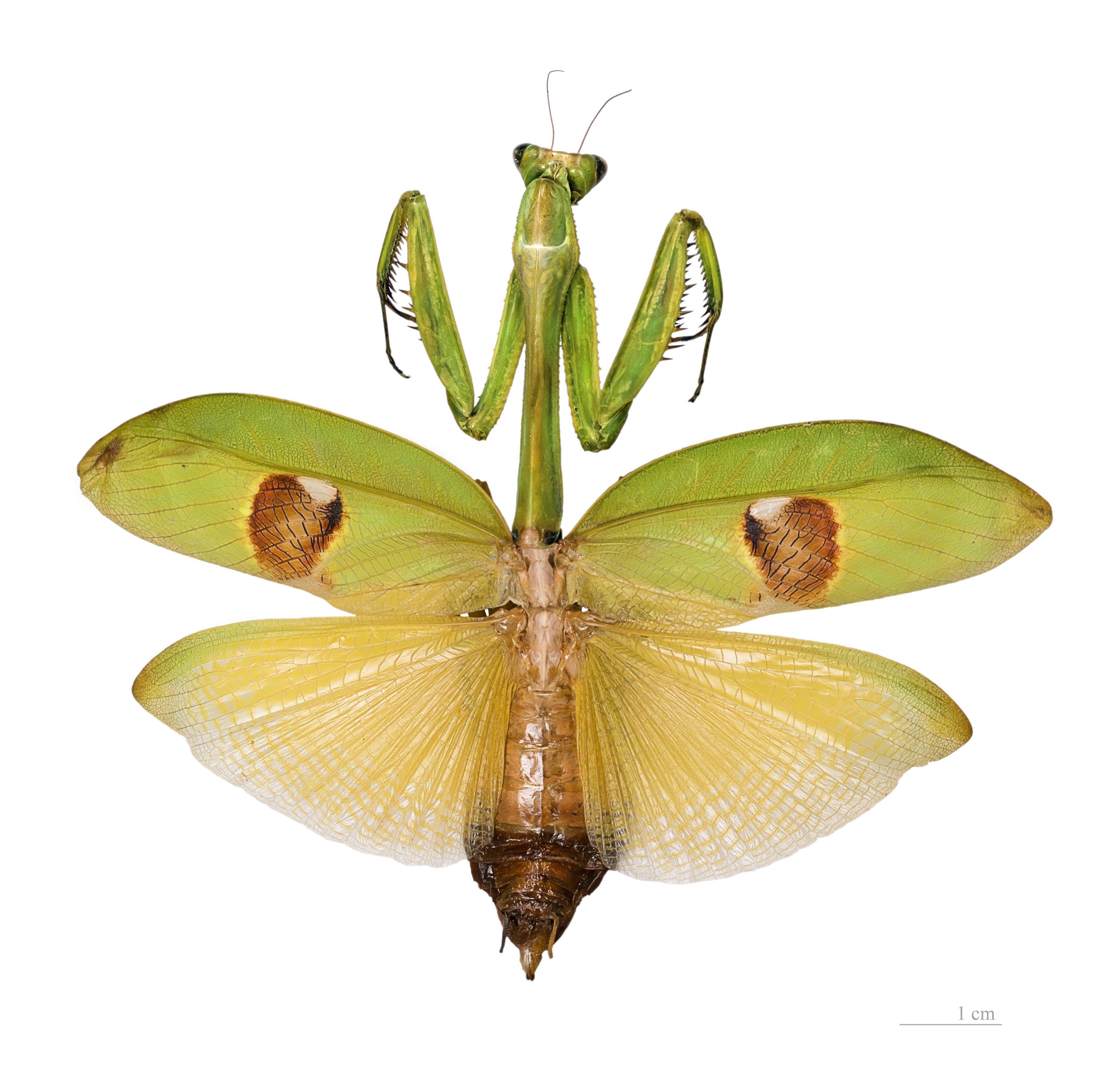 ♀ Flying position Locality : Kouroru, Summit "Monkey Mountain", French Guiana.